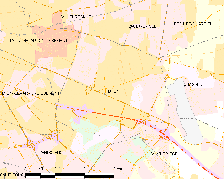 Map of French municipality